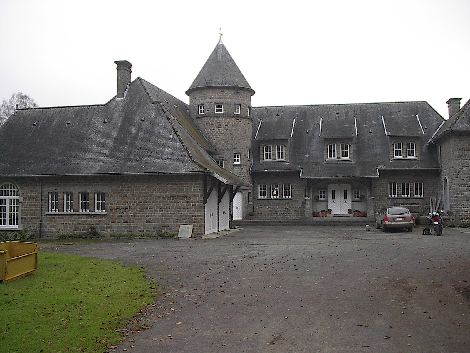 Castle of Sparmont, residence of artist Ghislaine de Menten de Horne